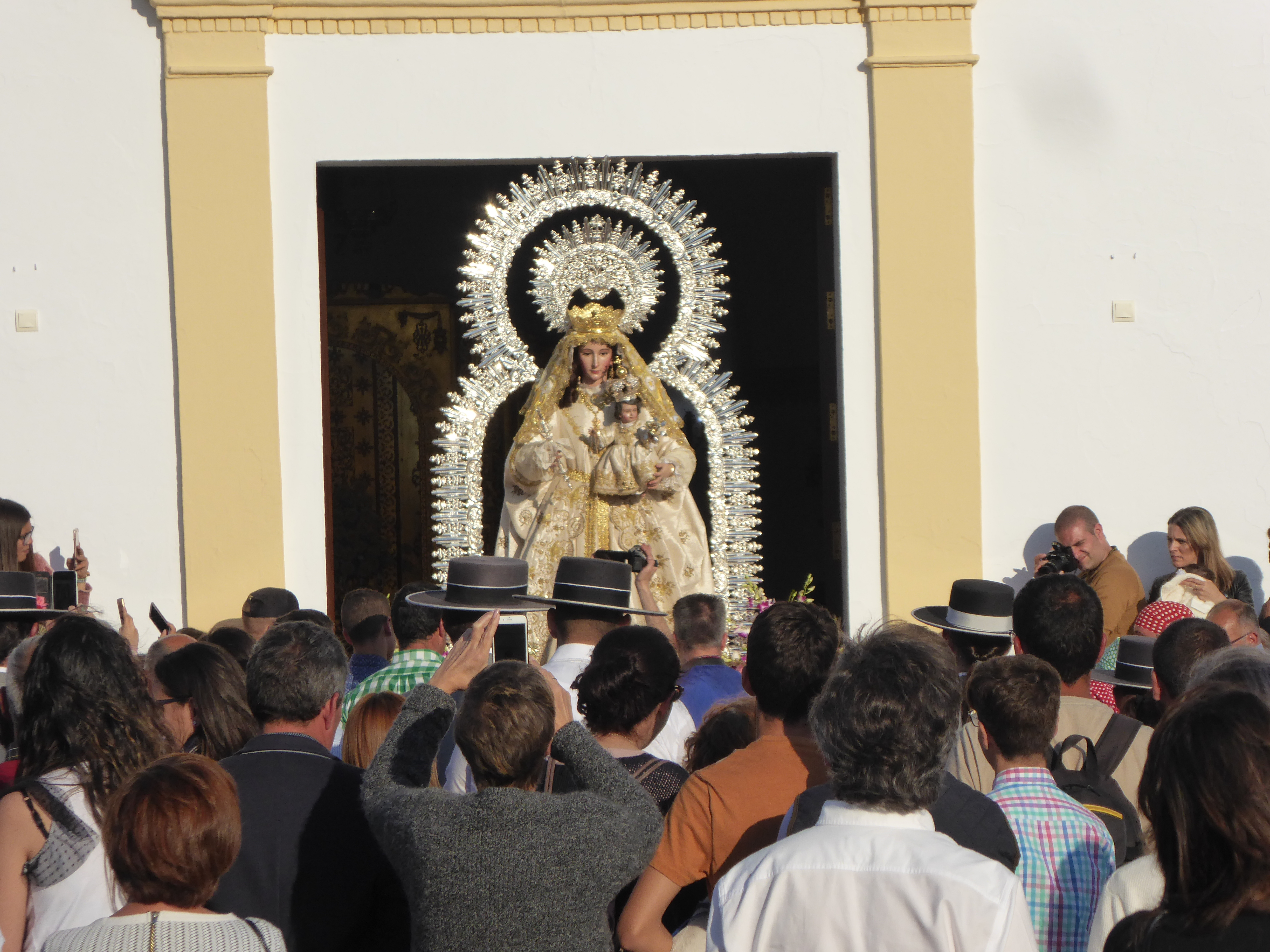 Romería de Nuestra Señora de Piedras Albas, año 2019, salida de la imagen de la Virgen.